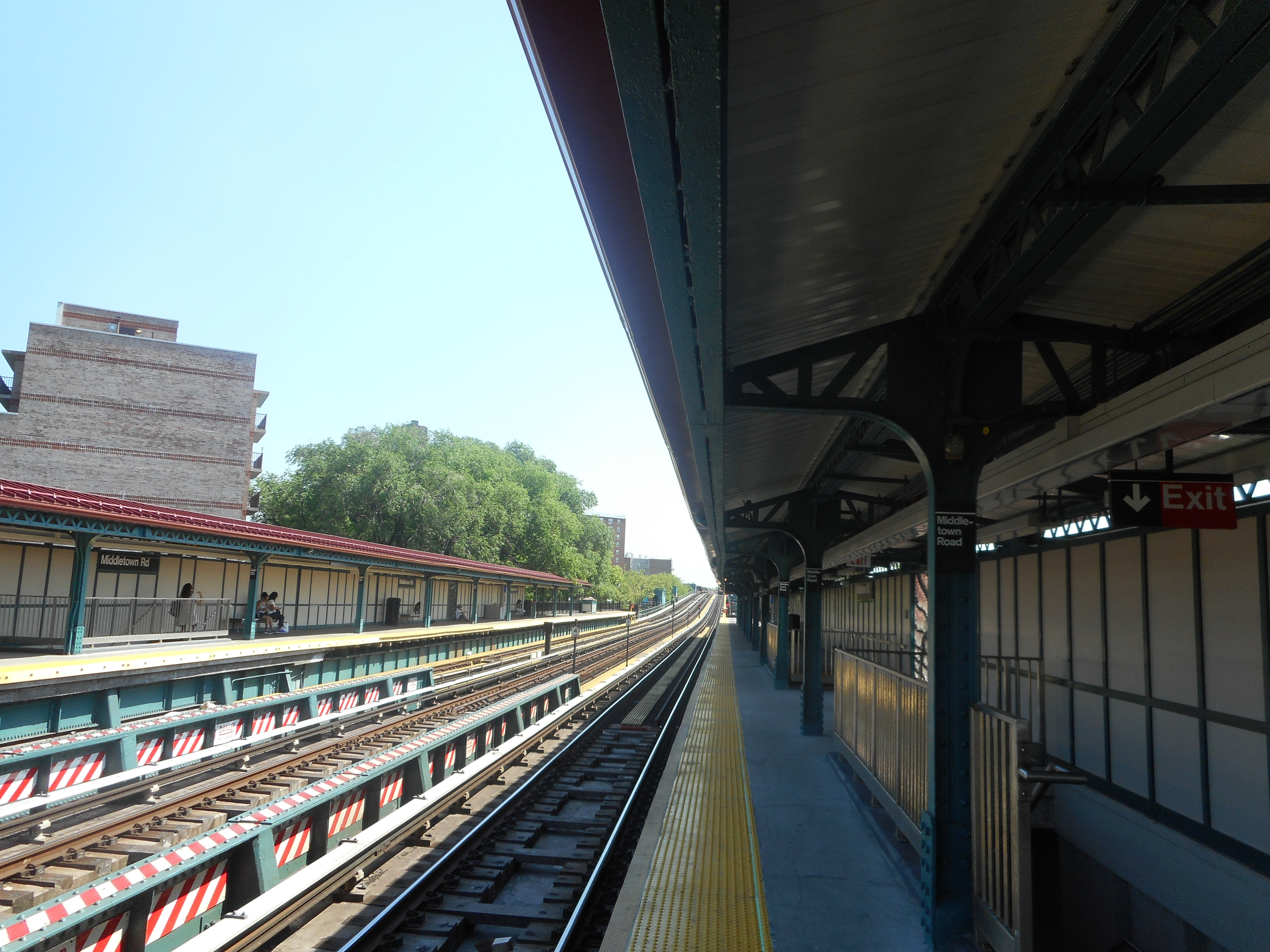 Additional photo of the Middletown Road Elevated Station on the IRT Pelham Line in the Pelham Bay section of the East Bronx. Further details and a definite rename to come later.